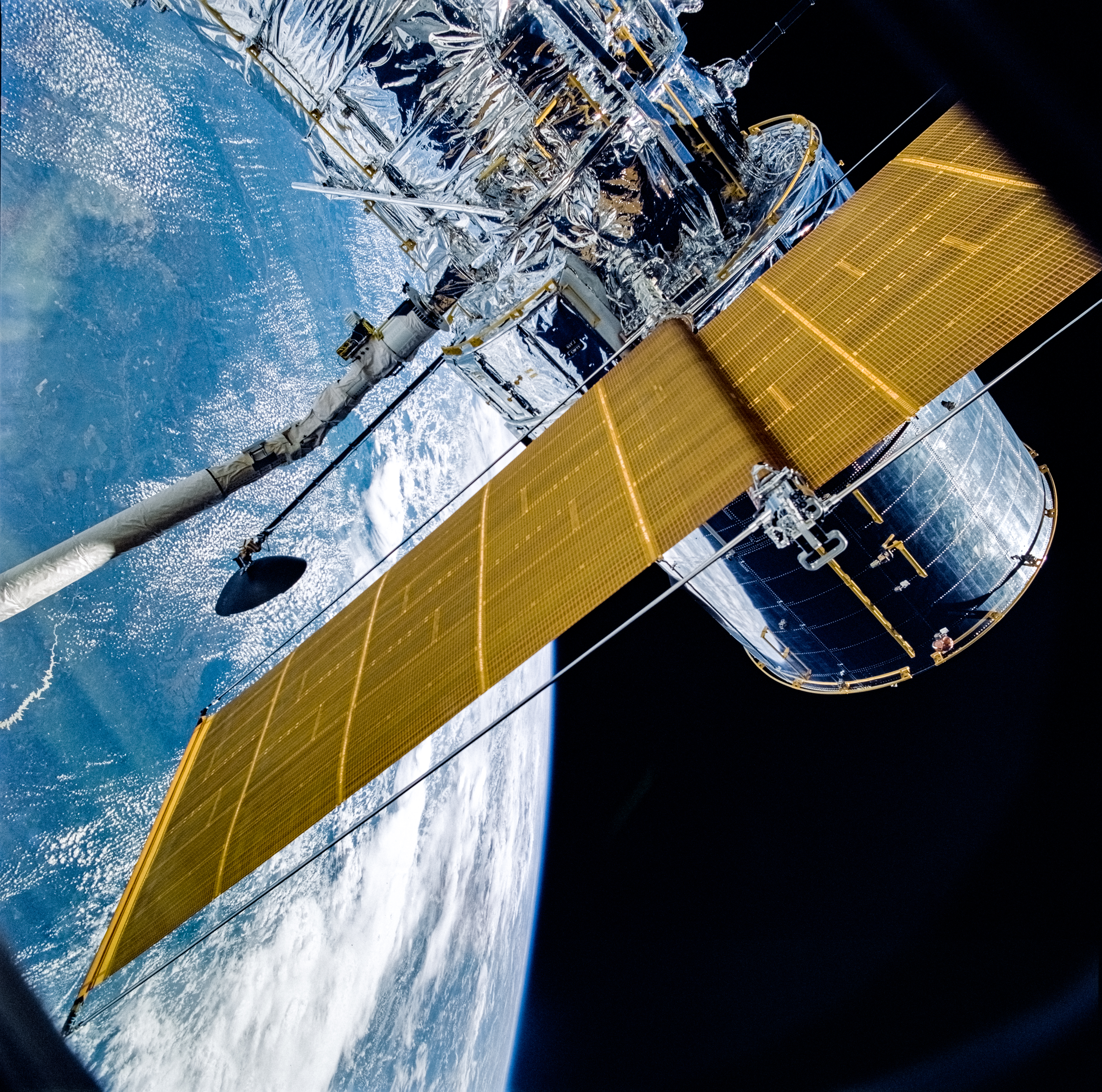 The solar arrays of the Hubble Space Telescope are unfurled during the observatory's deployment on STS-31.